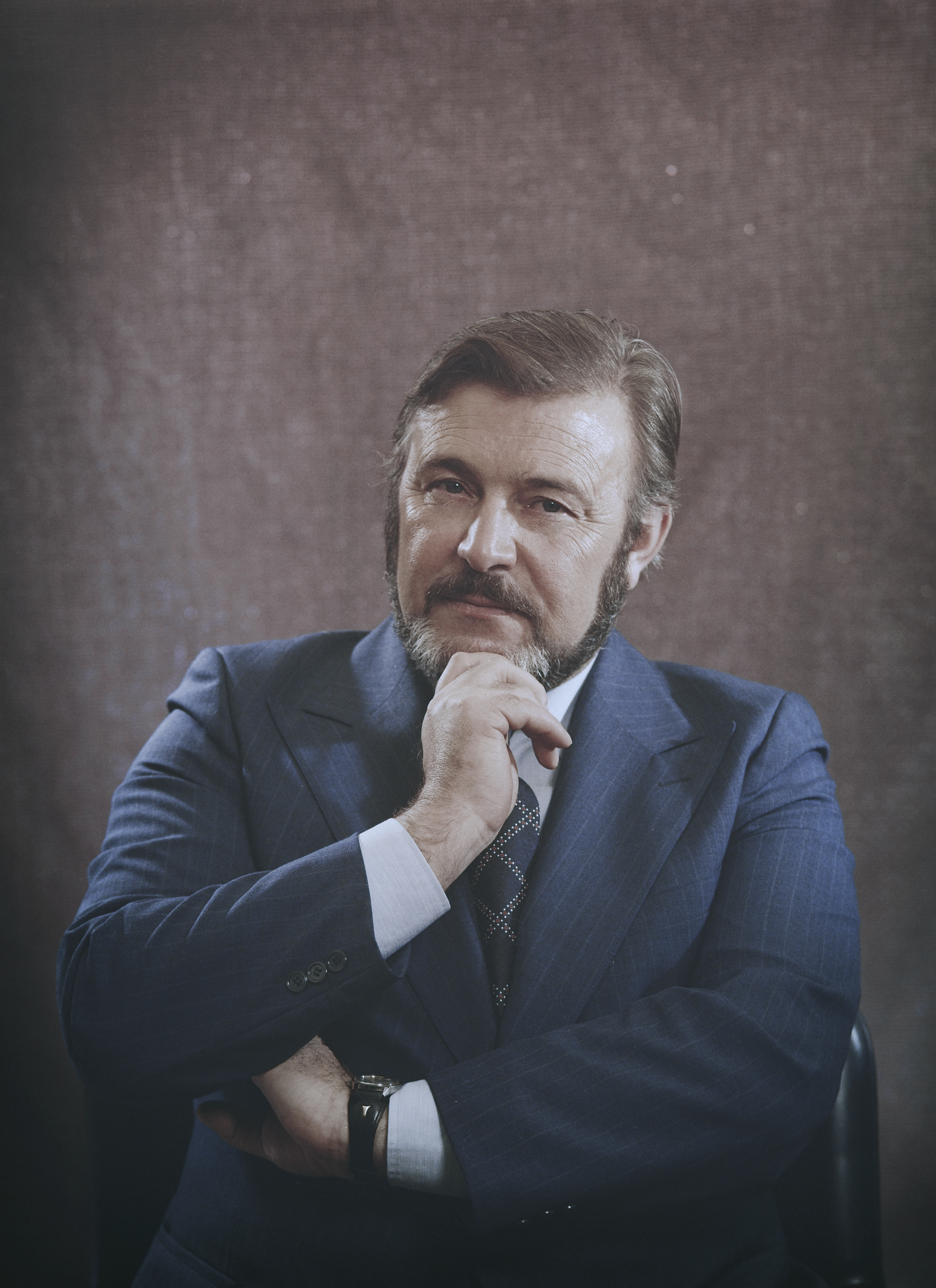 Photograph of the Finnish trade unionist Jarl Sund (1932–2009).